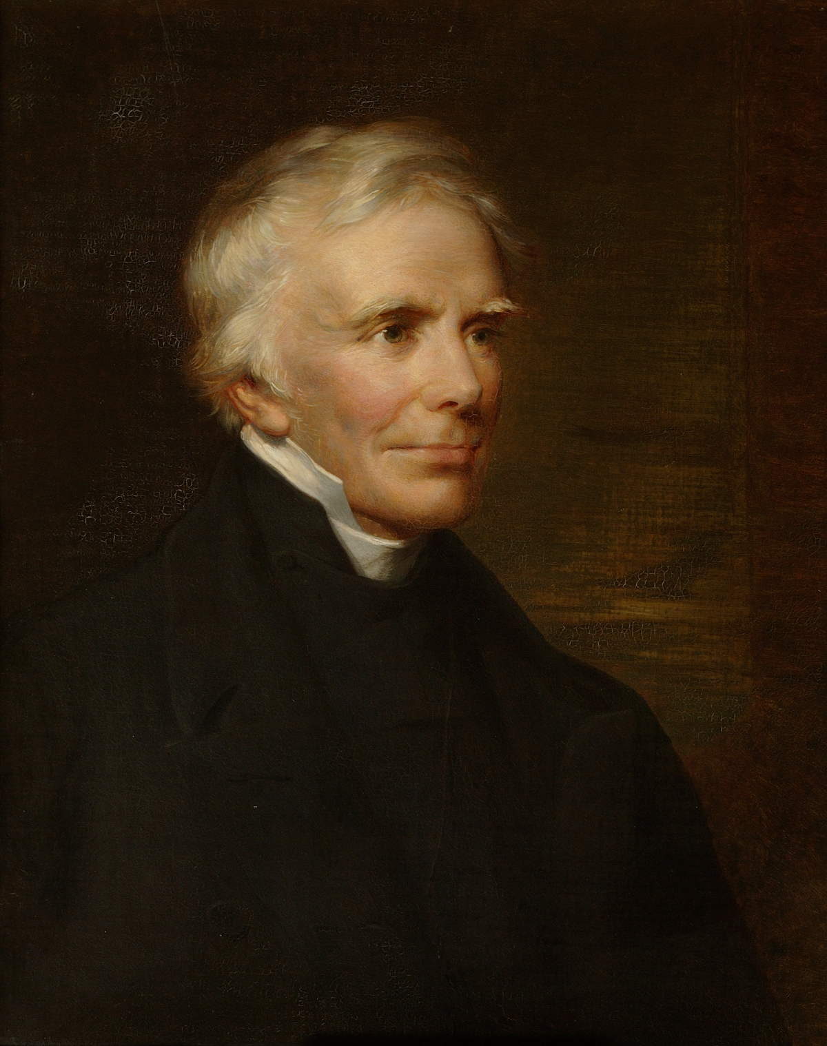 Portrait of John Keble (1792-1866)